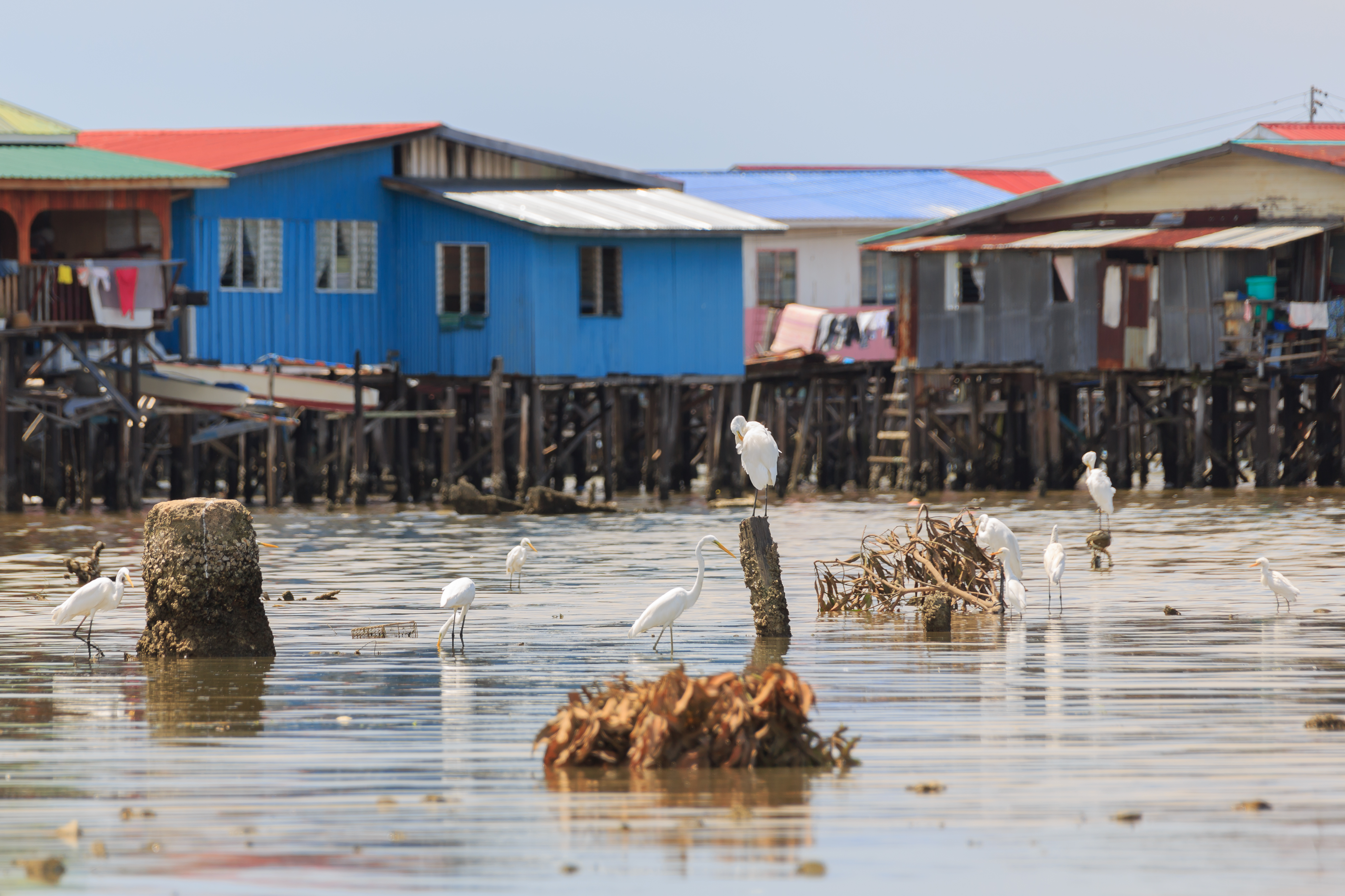 Kota Kinabalu, Sabah: Great egret (Ardea Alba) in front of the Bajau Kampung Air of Tanjung Aru Lama